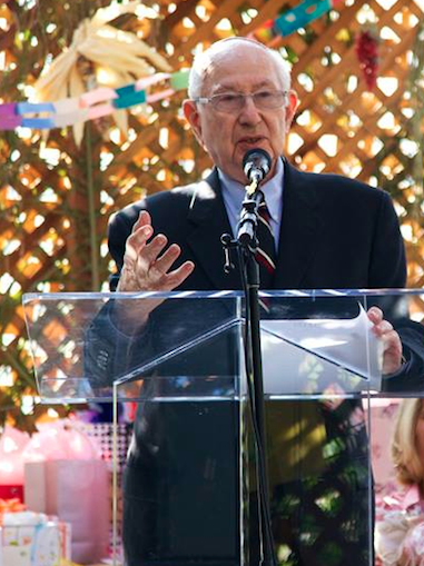 Rabbi Zvi Dershowitz delivers a speech at a baby-naming ceremony (Jewish life-cycle event) at Sinai Temple in Los Angeles on October 13, 2014.